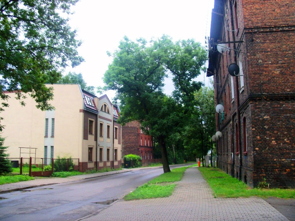 Katowice - Siemianowicka Street